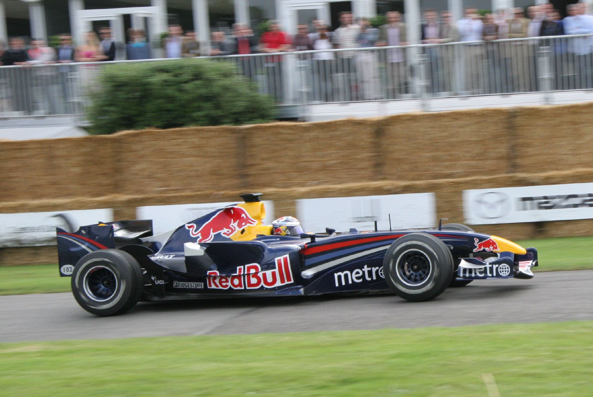 Michael Ammermüller driving of reliveried Red Bull RB1 at the 2007 Goodwood Festival of Speed.